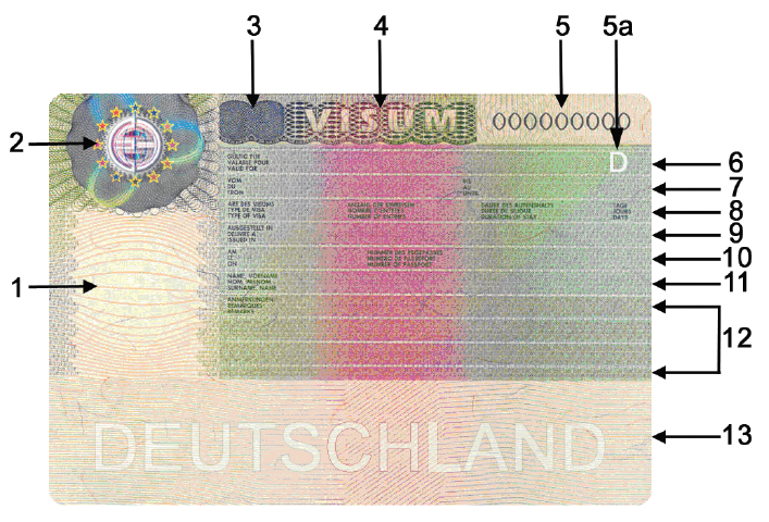 Specimen of a visa sticker used by the Schengen states since May 2009